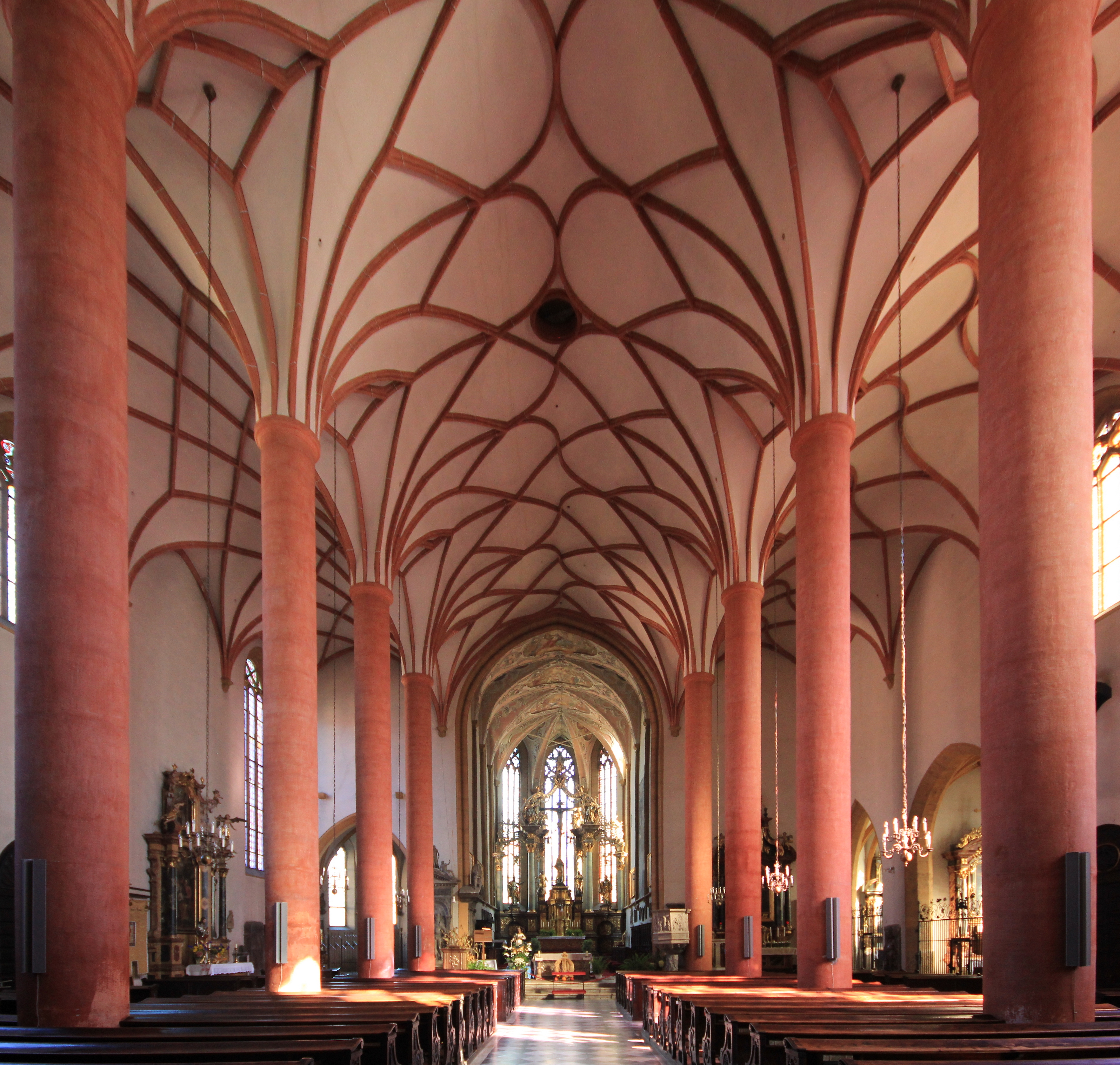 Parish church St. Jakob in Villach - Interior